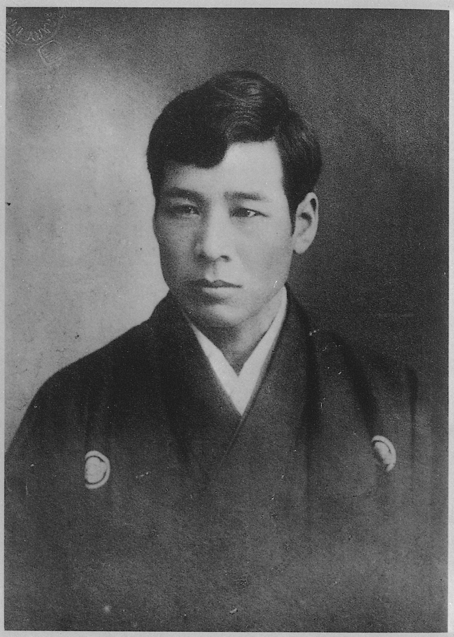 Portrait of Toyoda Sakichi (豊田佐吉, 1867 – 1930)